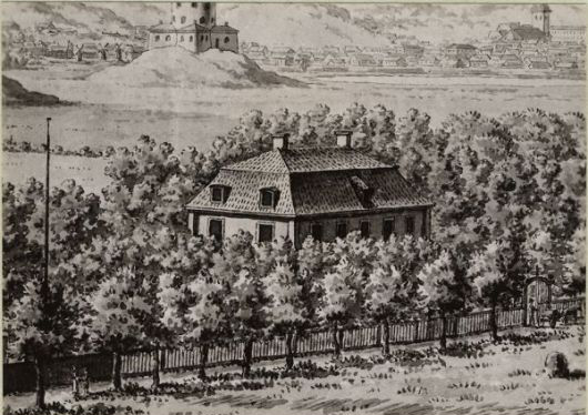 Mariedal, a mansion i Gothenburg, Sweden